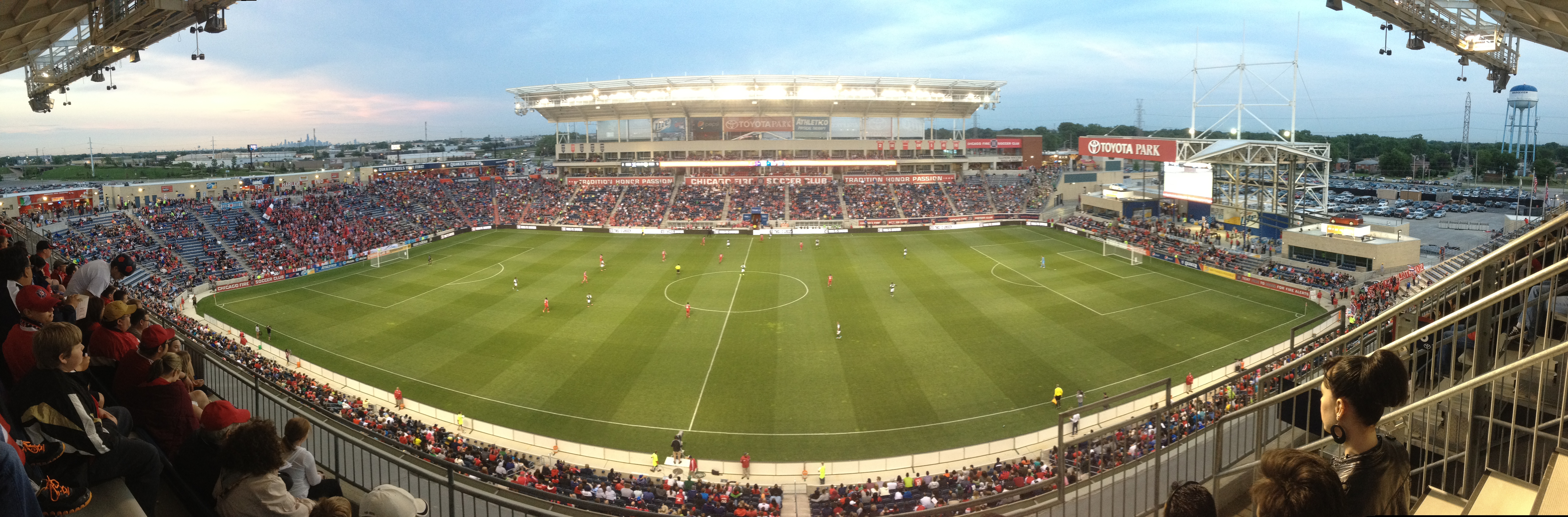 Panorama of Toyota Park on June 8, 2013 during the match between Chicago Fire and Portland Timbers. Chicago downtown is visible on the horizon on the left.